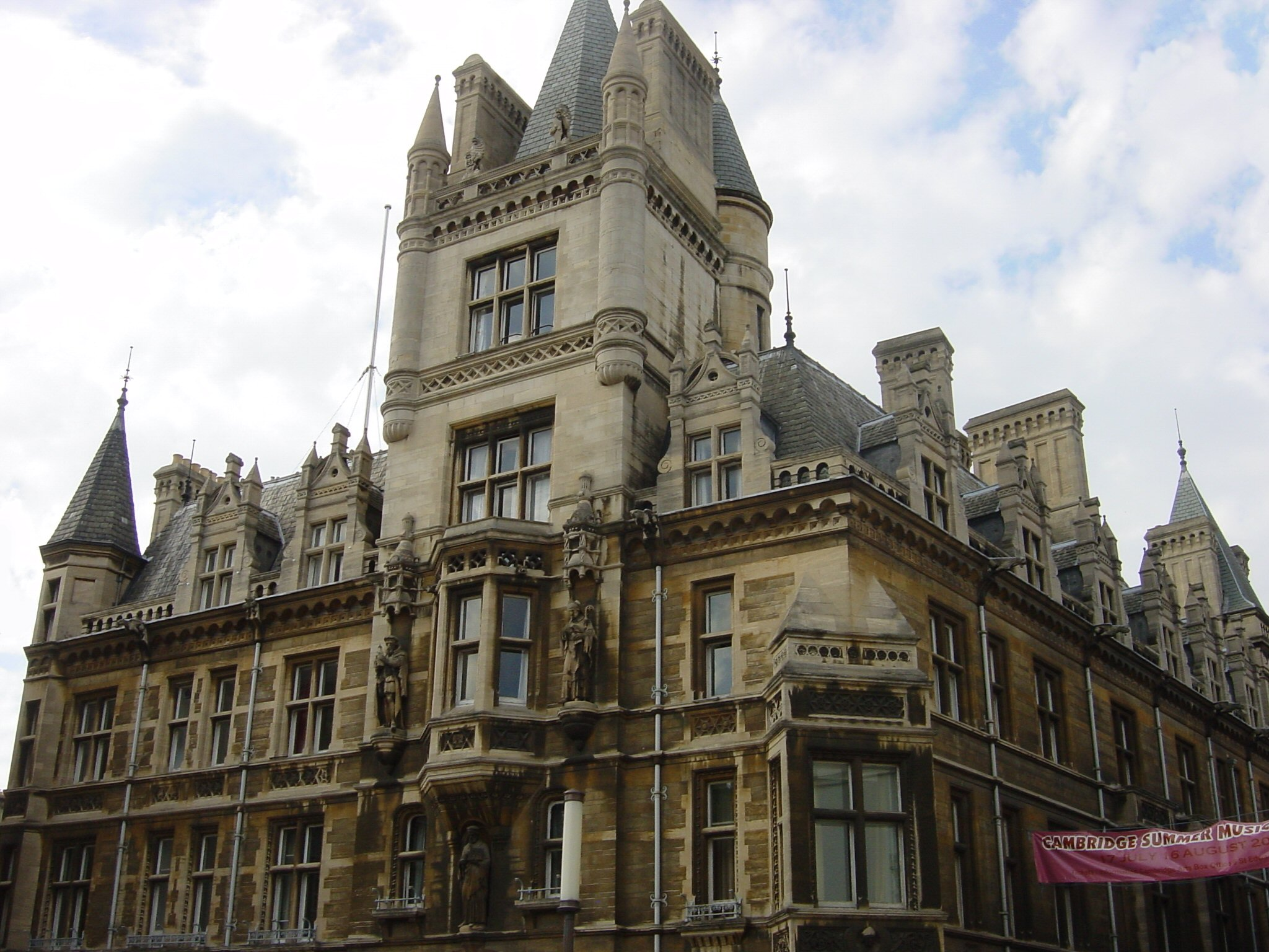 Exterior south-east corner of Tree Court, Gonville & Caius, University of Cambridge. Taken from south-east corner of St. Mary's Street and Trinity Street. Edited to remove partial corners of Senate House (left, minor overlap) and St. Mary's Court (right, no overlap). Camera: Sony Cybershot DSC-P5 Reolution: 2048 x 1536 px Bit depth: 24 6 Photograph: James F. Edited: James F. Taken from Image:Exterior South-East Corner of Tree Court, Gonville & Caius (full).jpg